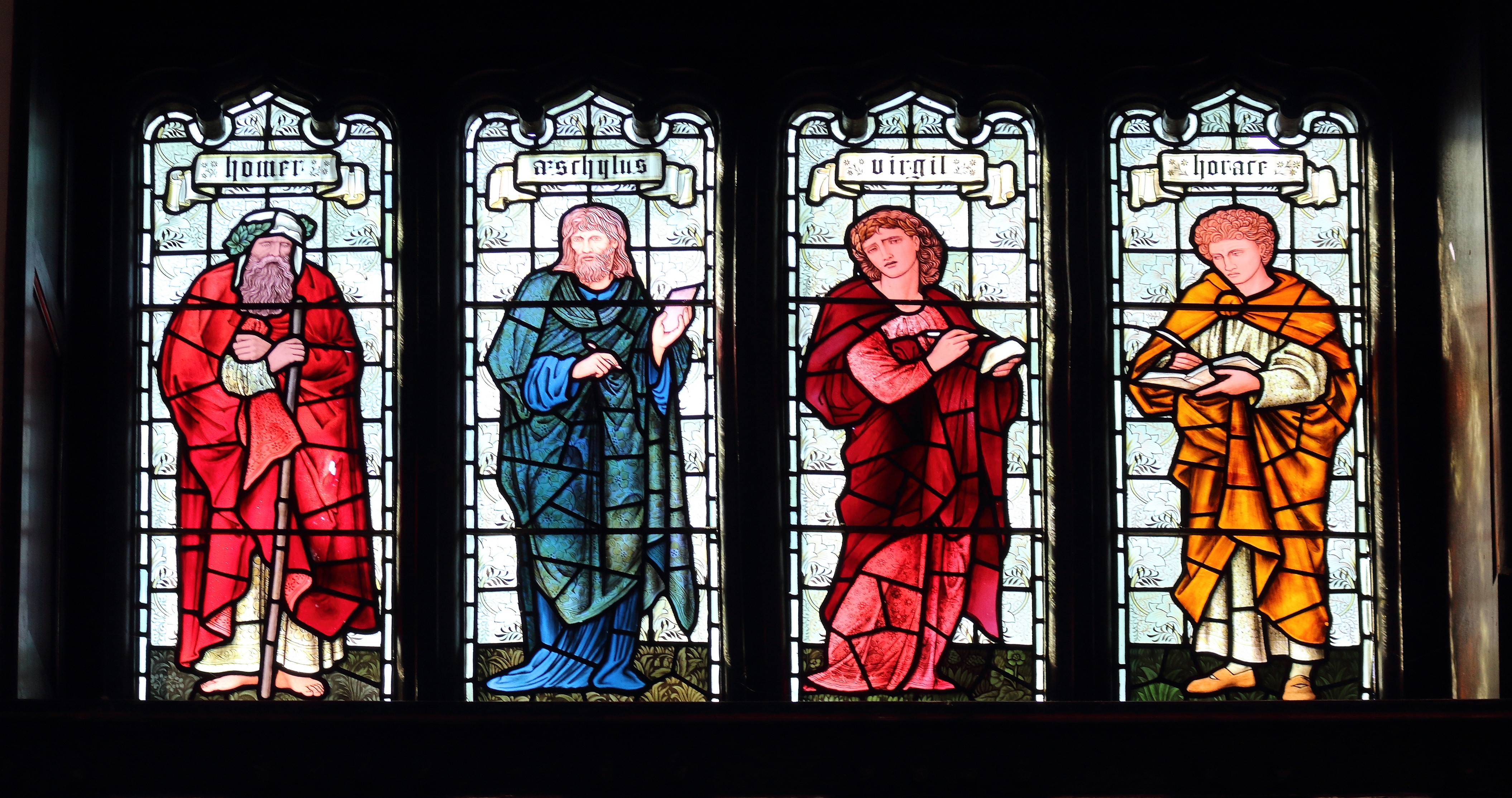 Windows depicting Homer, Aeschylus, Virgil and Horace in the west wall of the Great Hall of Hill Bark, Frankby. Design by Edward Burne-Jones and made by William Morris Company.